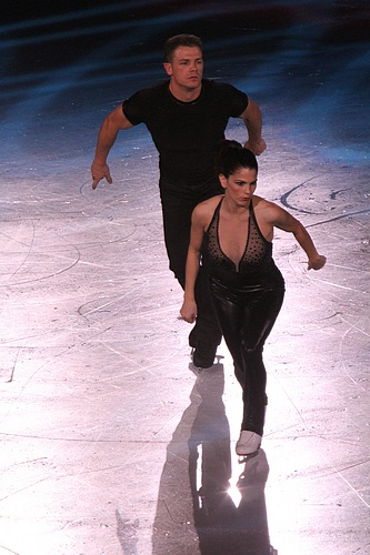 Stars on Ice in Halifax 2010.